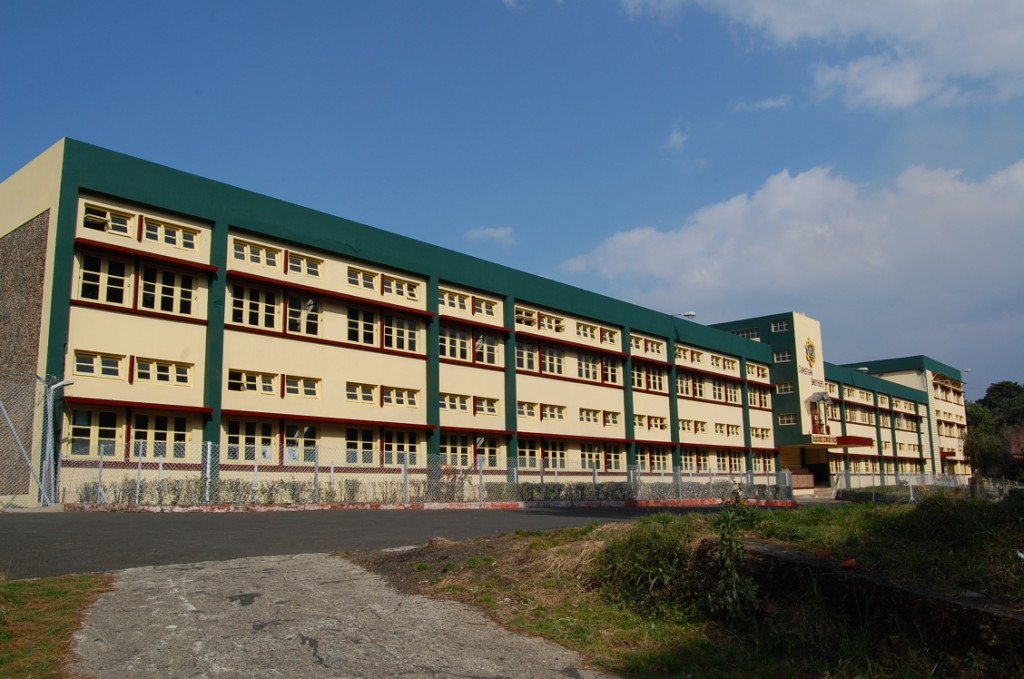 St. Edmund's School, Shillong. Picture of the school front